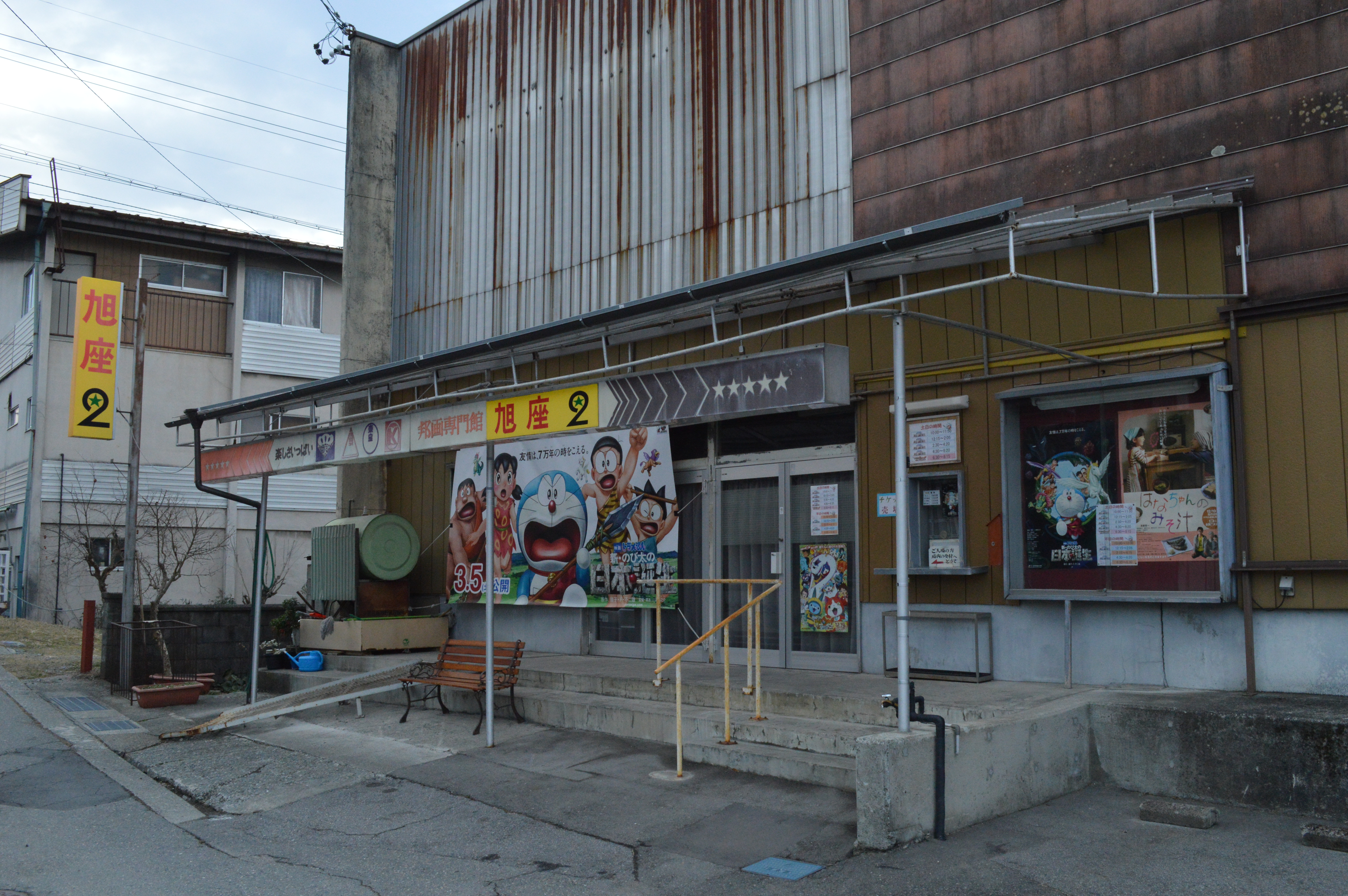 Ina Asahi-za is a movie theater in Ina city, Nagano prefecture, Japan.